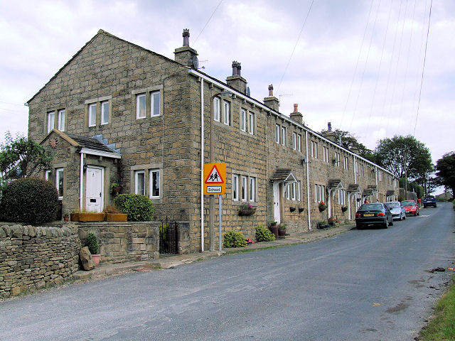 Terrace of houses, Oldfield Village